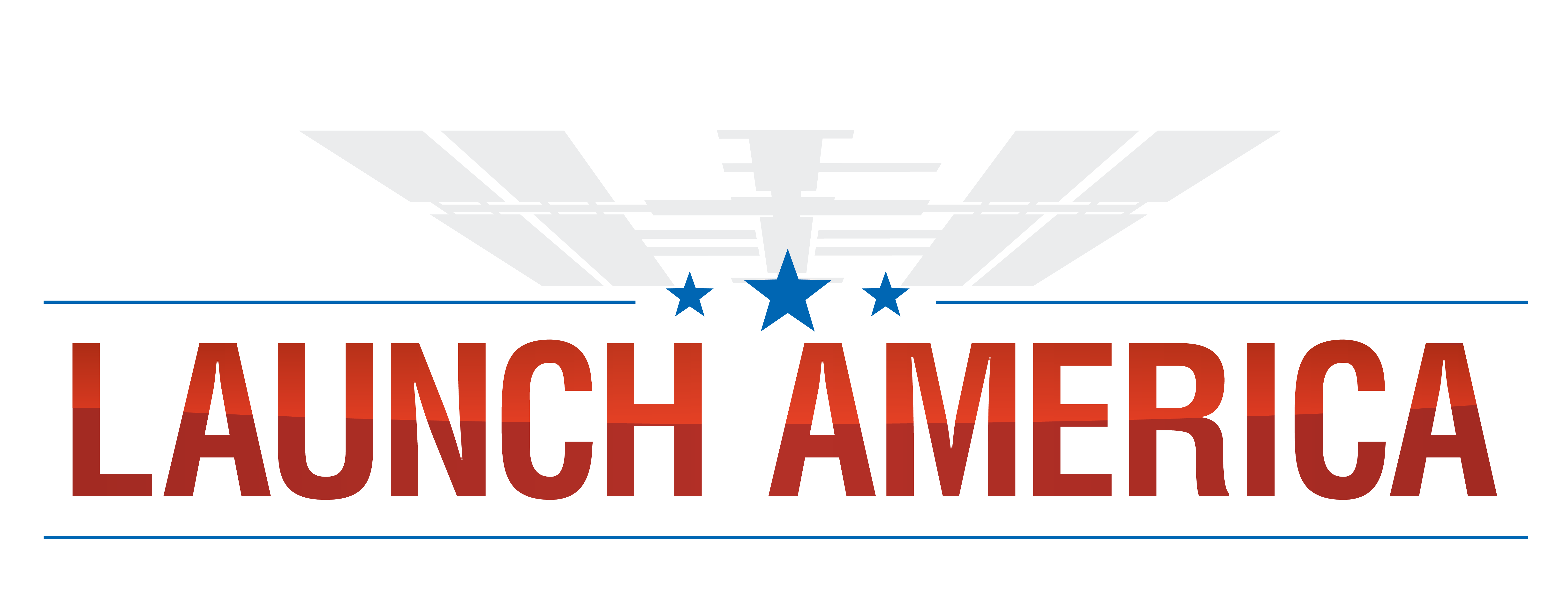 Launch America - a partnership between NASA and private space companies – will help open the space above Earth to people besides government astronauts.